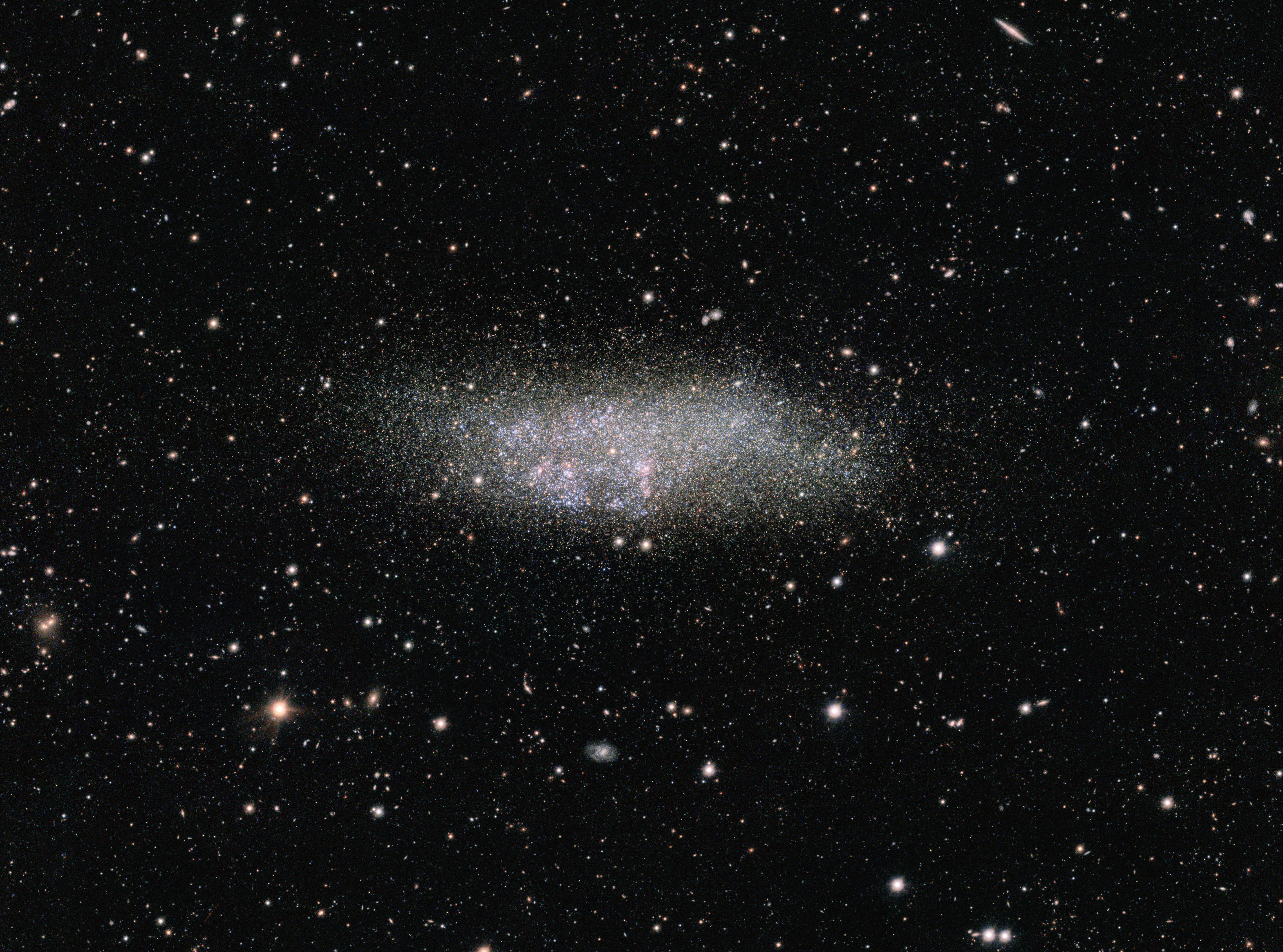 This image, captured by ESO’s OmegaCAM on the VLT Survey Telescope, shows a lonely galaxy known as Wolf-Lundmark-Melotte, or WLM for short. Although considered part of our Local Group of dozens of galaxies, WLM stands alone at the group’s outer edges as one of its most remote members. In fact, the galaxy is so small and secluded that it may never have interacted with any other Local Group galaxy — or perhaps even any other galaxy in the history of the Universe.